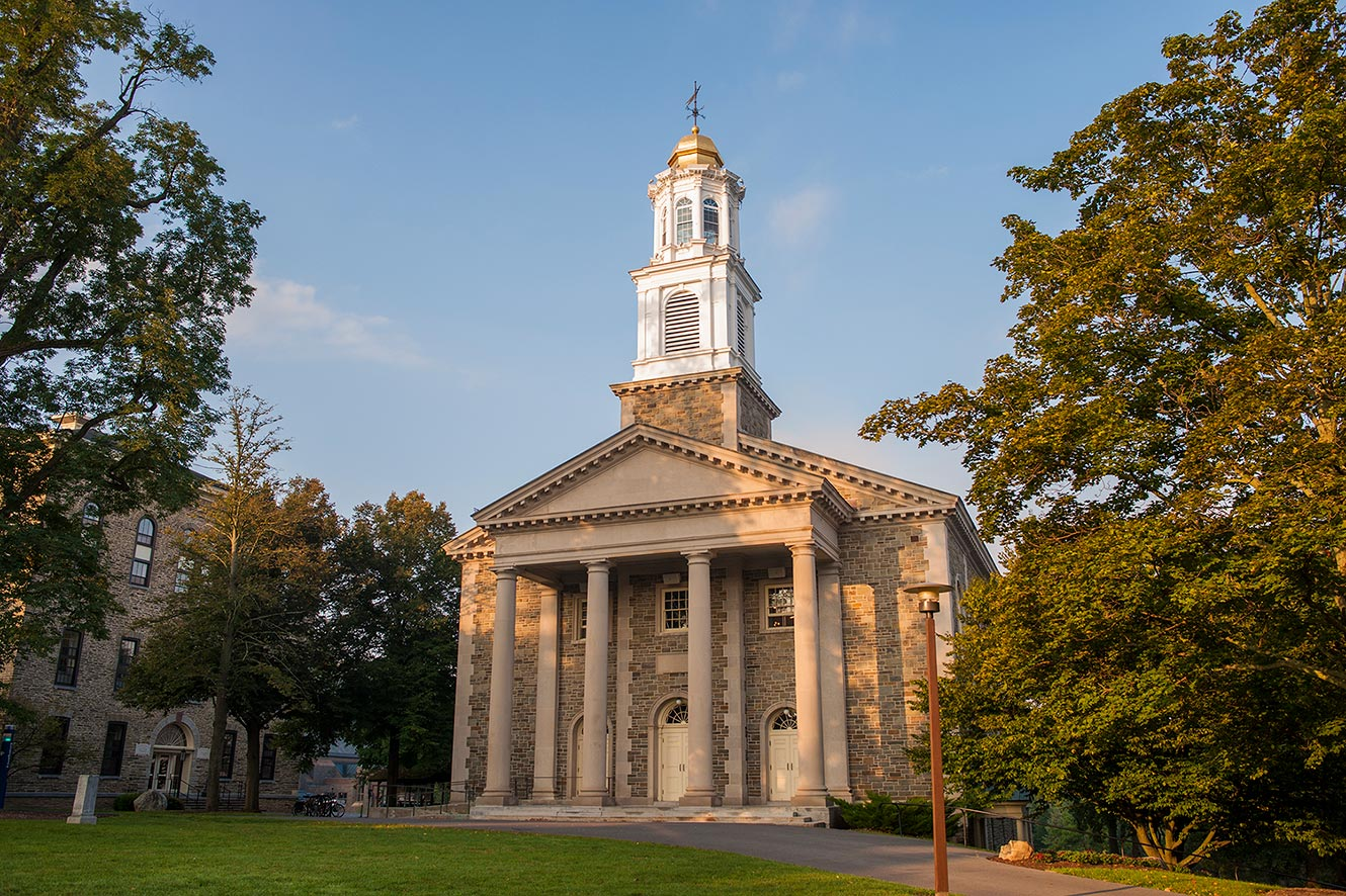 Memorial Chapel, the anchor of the Colgate University Academic Quad, as a sunny day approaches sunset.